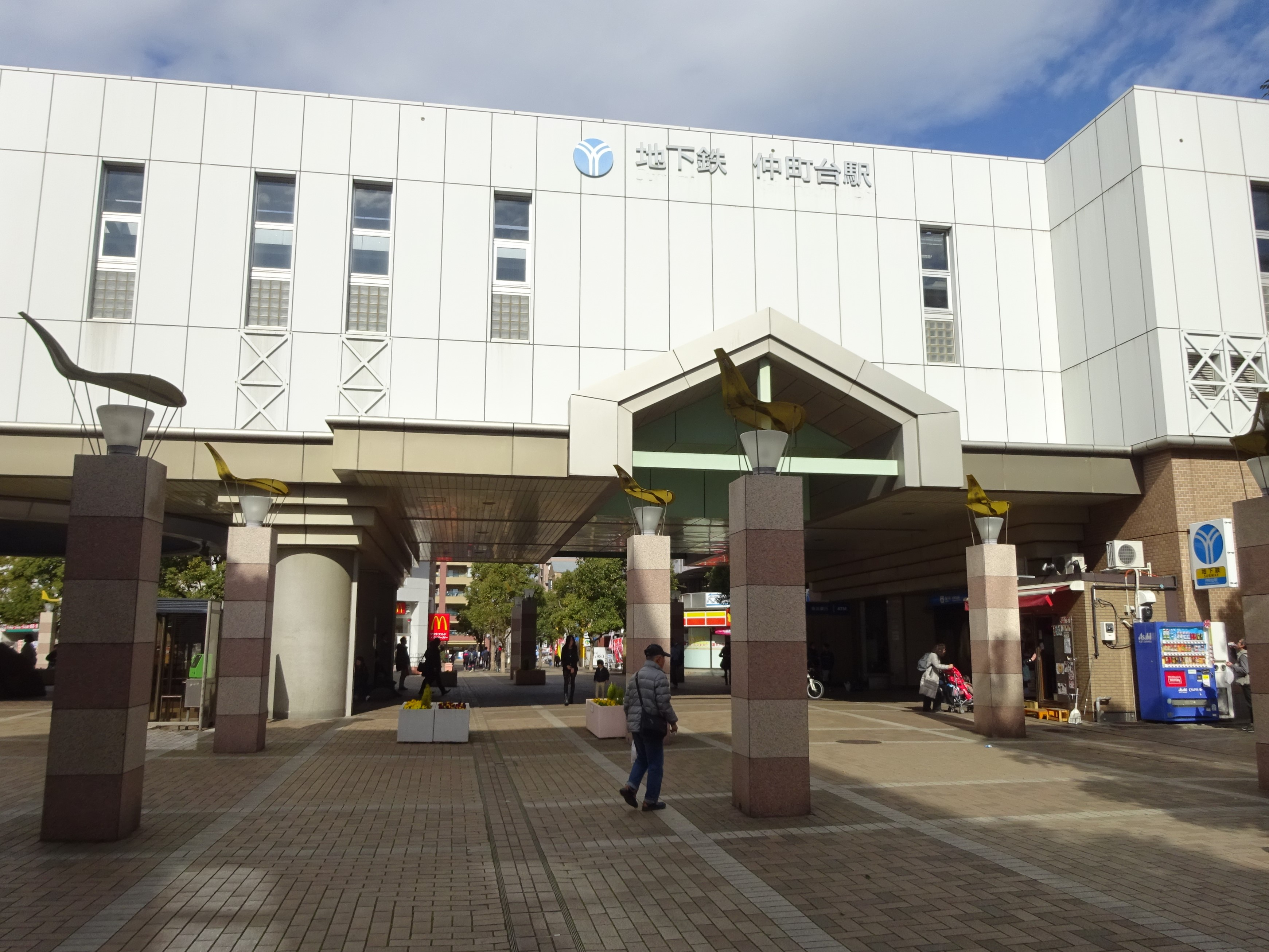 Nakamachidai Station